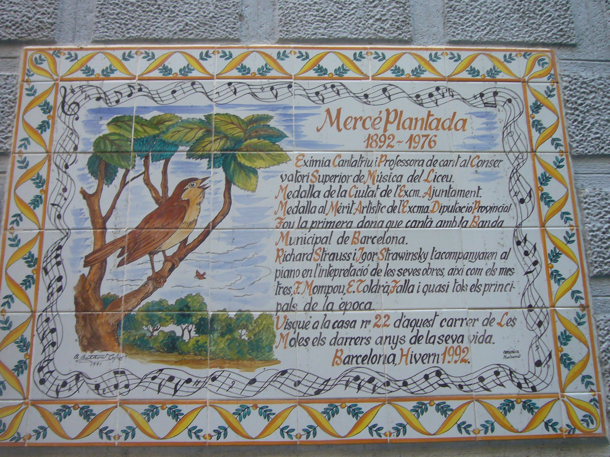 Plaque in honour of the Catalan soprano Mercè Plantada, located at Carrer de les Moles, Barcelona